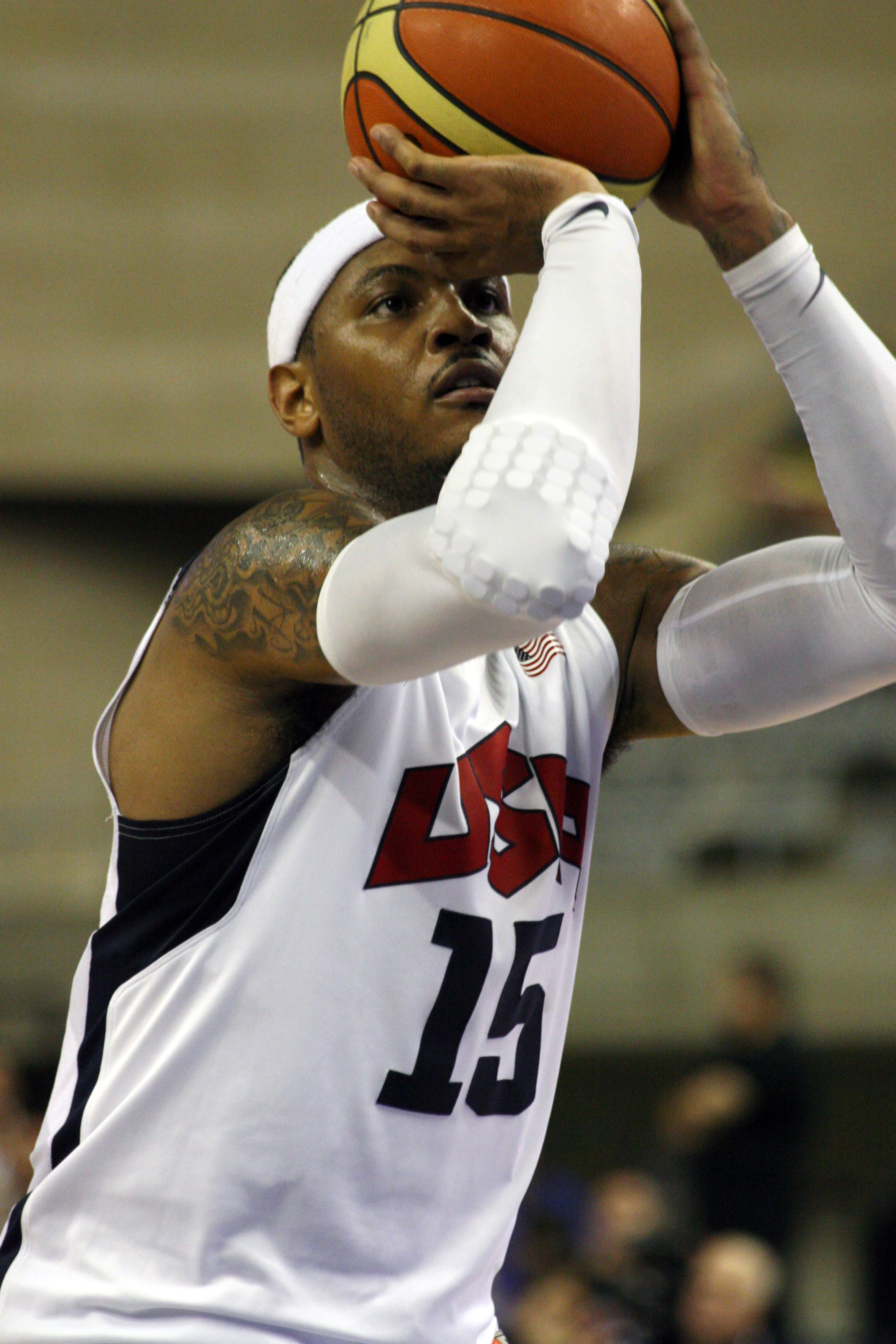 Carmelo Anthony shooting a free throw against Great Britain in a warmup game ahead of the 2012 Olympics